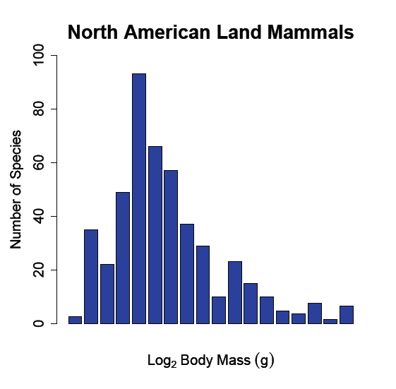 graph of north american land mammals by size class